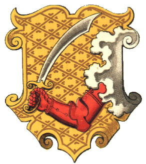 Coat of arms of the Austro-Hungarian province of Bosnia as described in a 1889 decree.